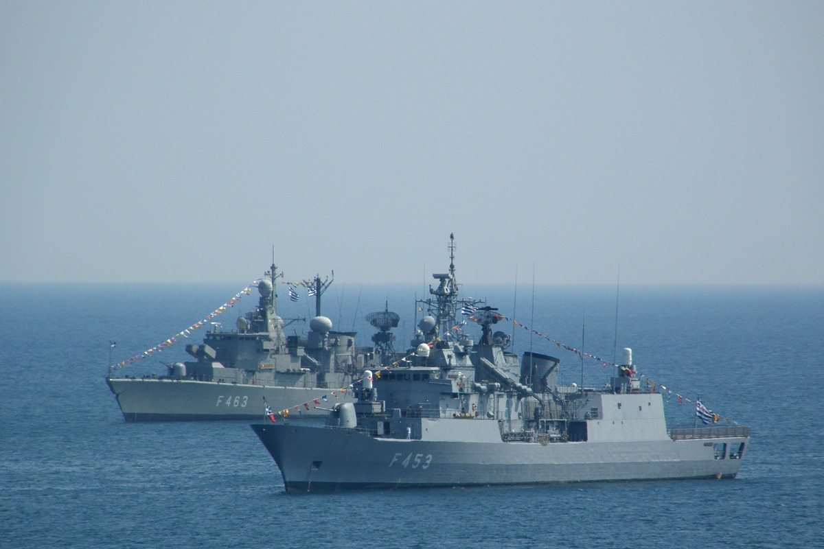 Hellenic Navy frigates HS Spetsai, F-453 and HS Bouboulina, F-463, at Phaleron Bay.